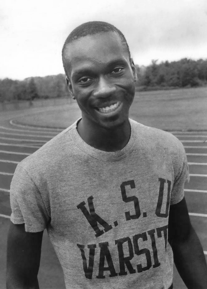 1984 Press Photo Thomas Jefferson KSU sprinter going to Olympics